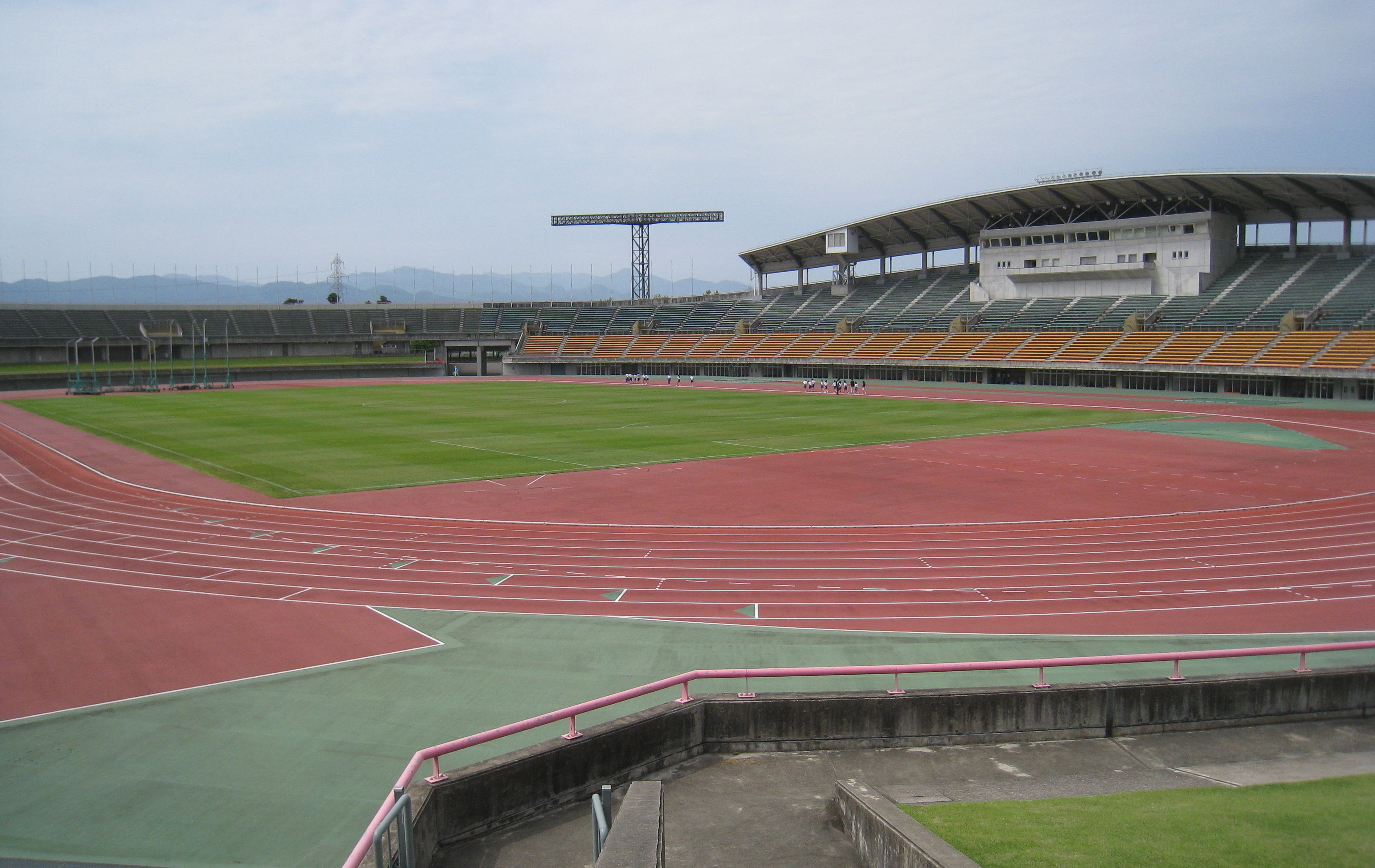 Toyama global athletic park main stadium.(Toyama-city,Yoyama-Pref,Japan)